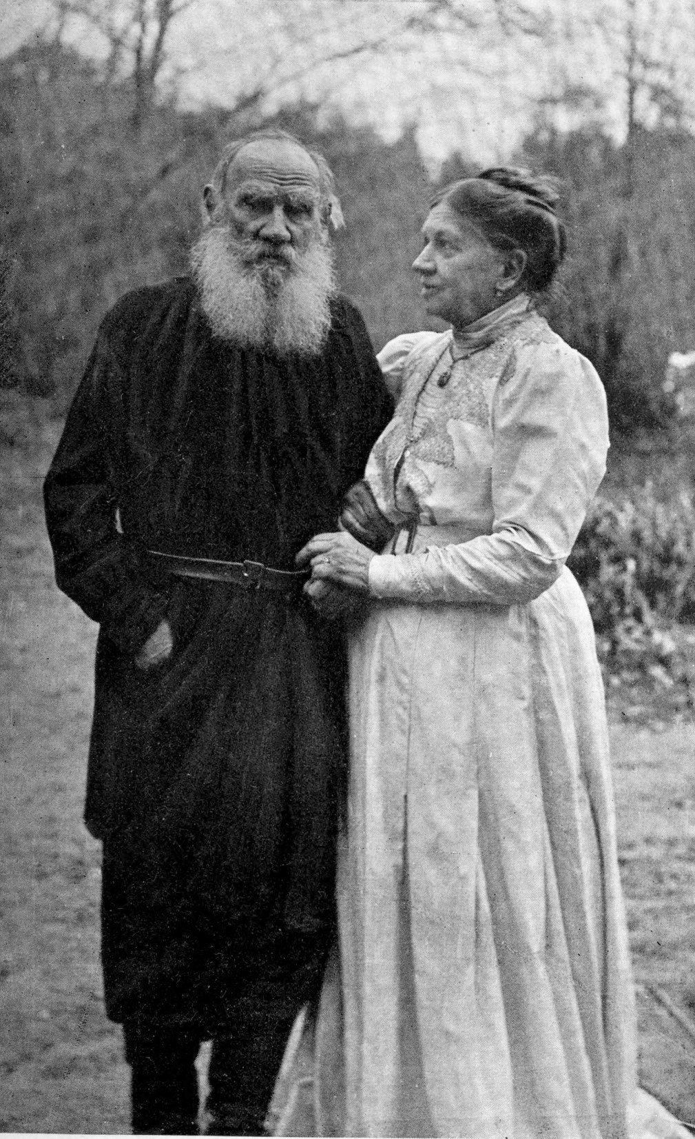 Leo Tolstoy and his wife Sofia Tolstaya. The photograph was taken 6 weeks before Tolstoy's death.